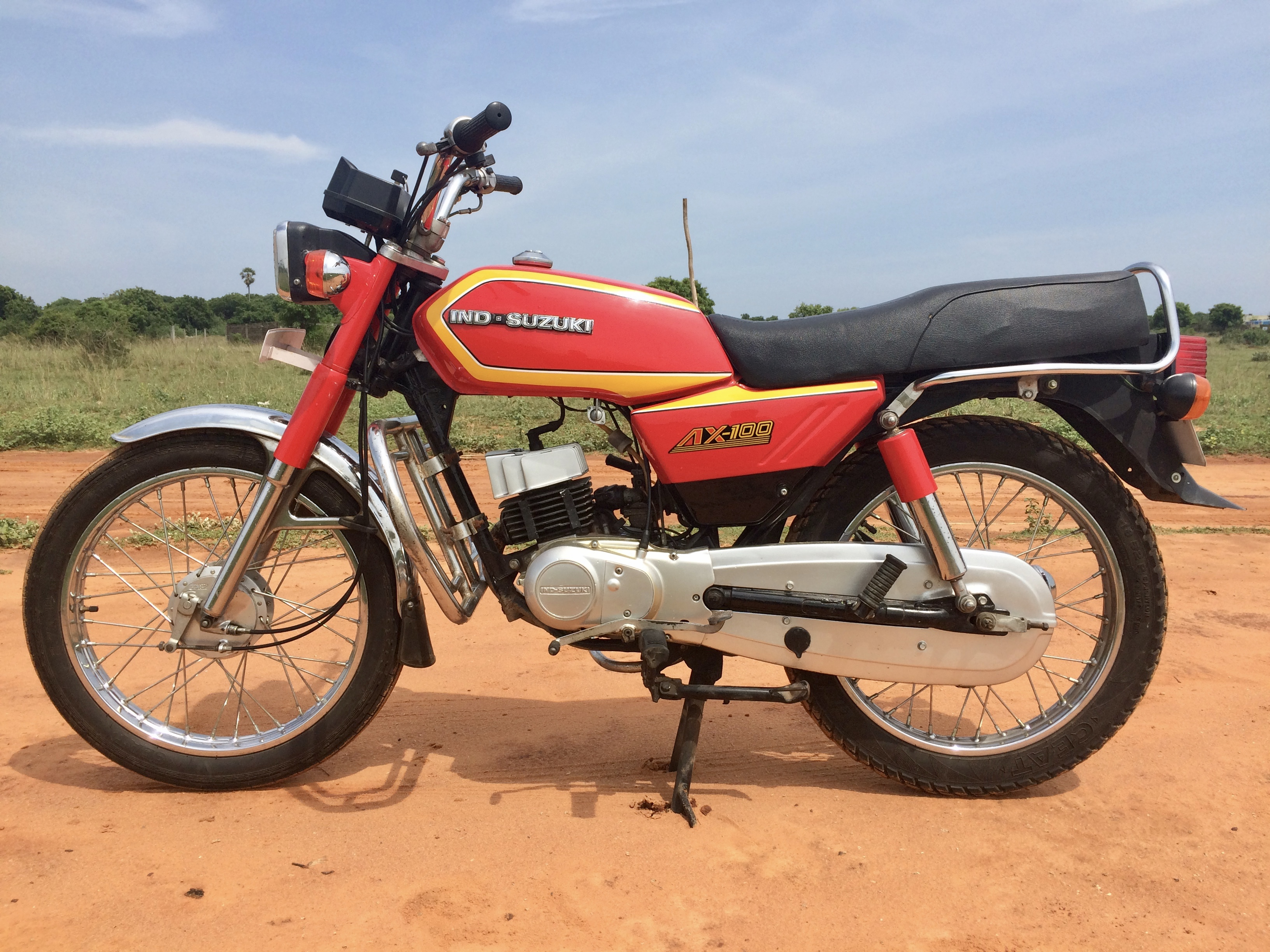 This is a(restored) original condition of the motorcycle. It carries the original IND-SUZUKI badge on the tank, authentic stickering and labels. It sports an authentic suzuki engine made in Japan. However, the left rear turn light is sourced from a 3rd party manufacturer.